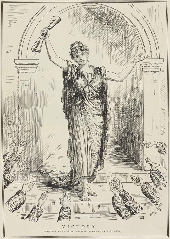 Cartooning celebrating women's suffrage in New Zealand and how their vote is now sought by all political movements and lobbies.